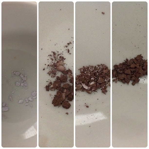 The decomposition of Silver Chloride under UV ray. Done by KB Gan